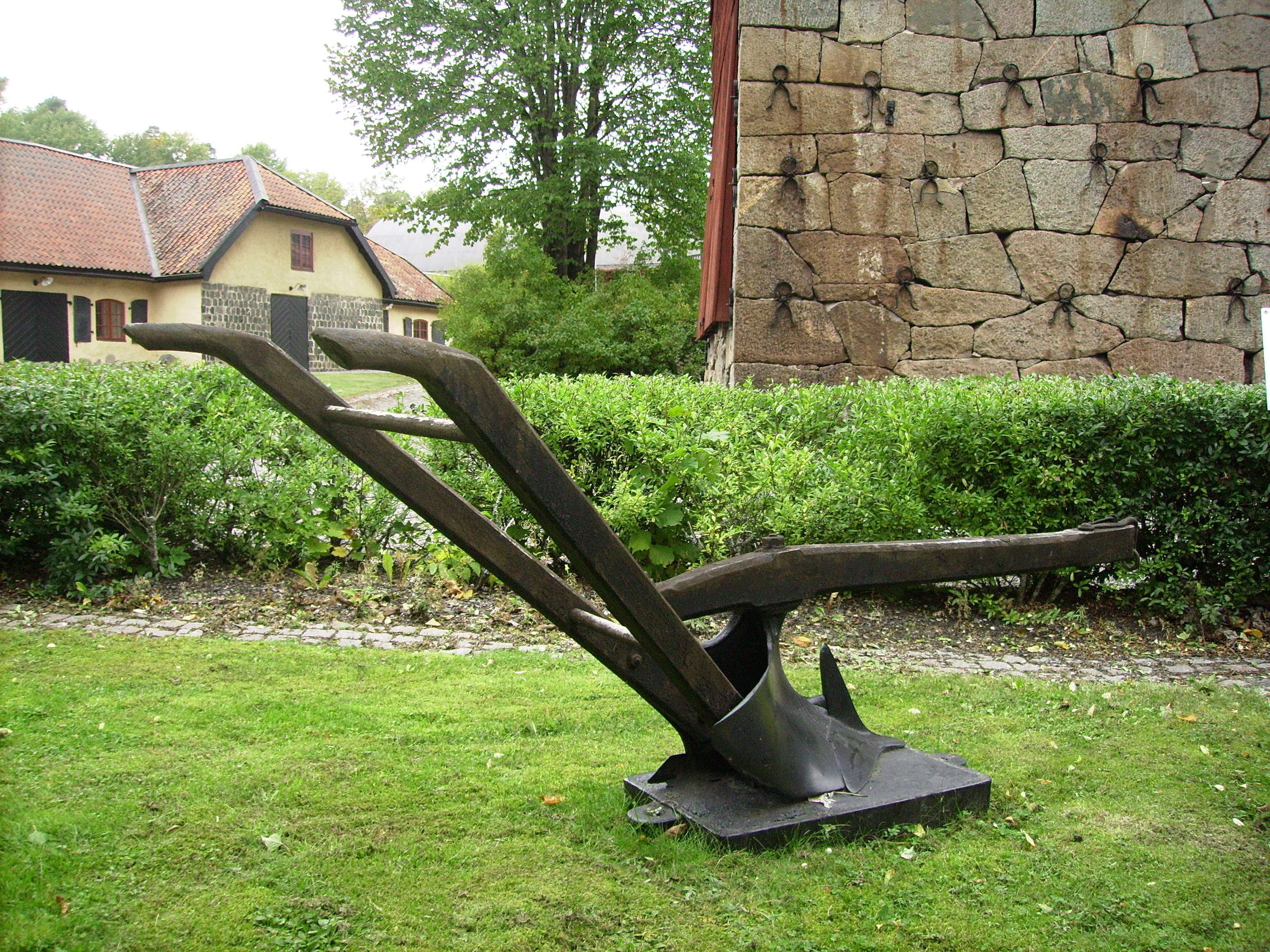 Picture of a famous plough, Åkersplogen, made in Sweden